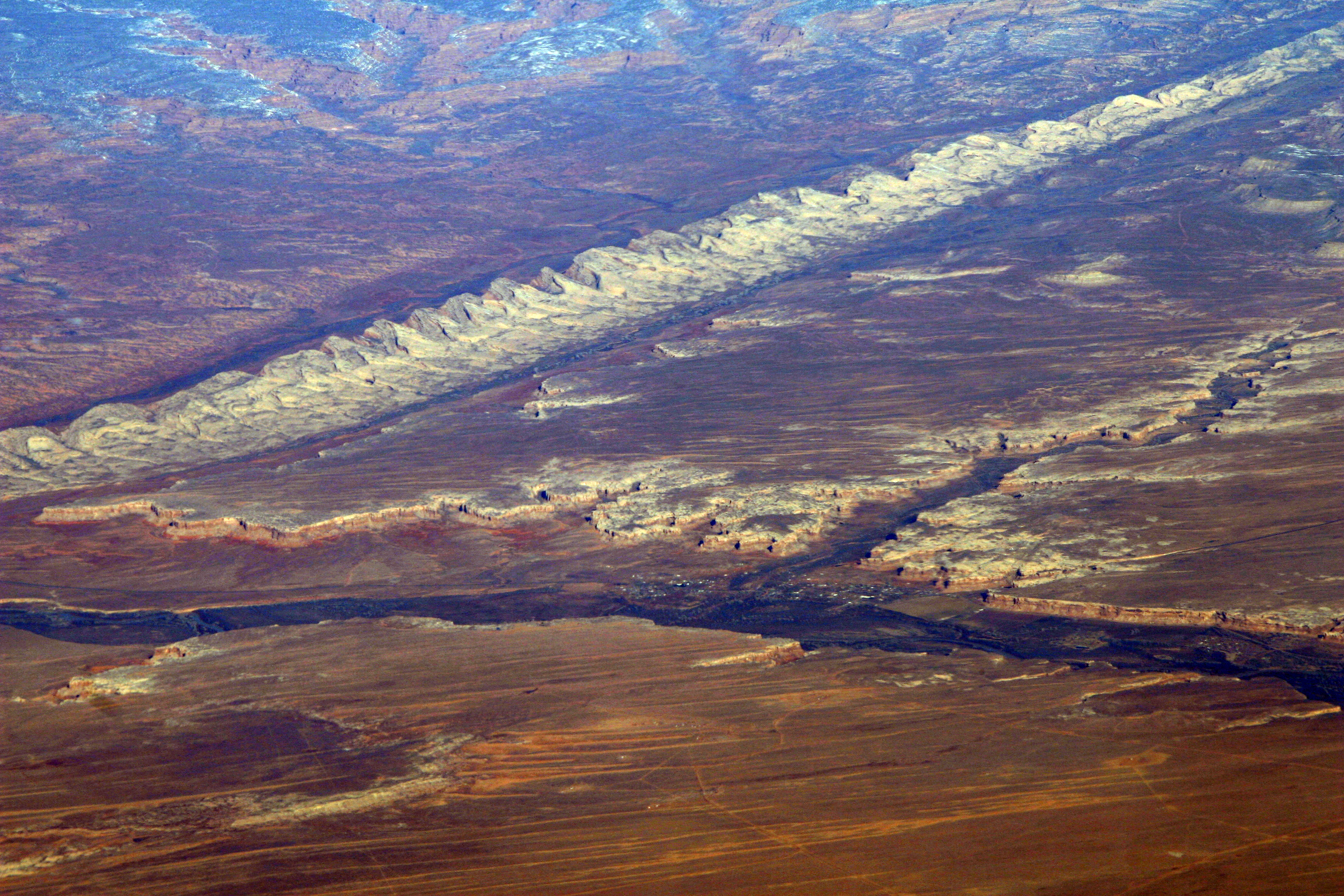 Part of the Comb Ridge with Bluff, Utah in the foreground.